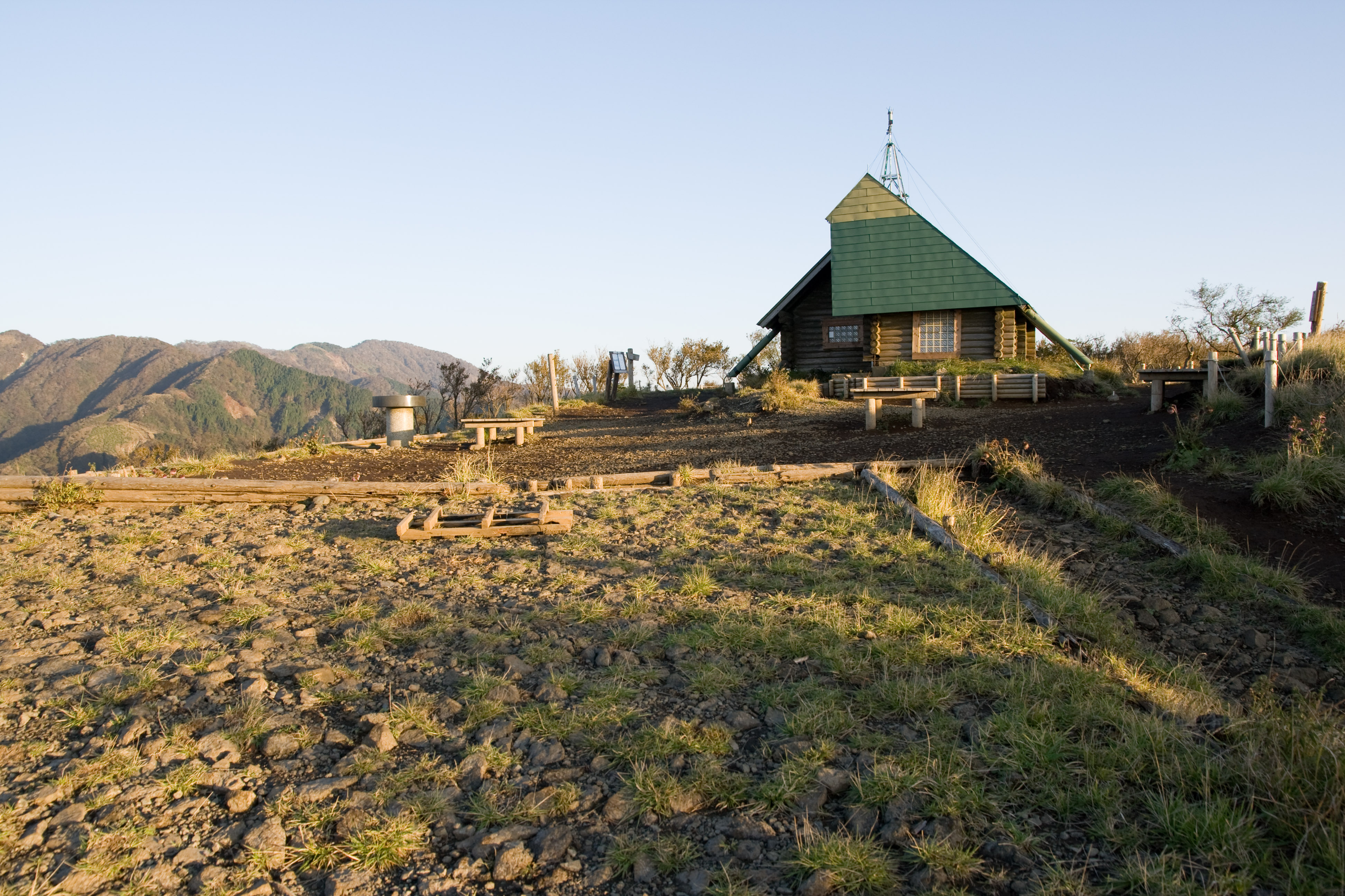 Sannoto Kyukeijo hut on the top of Mount Sannoto in the Tanzawa Mountains, Kanagawa Prefecture, Japan